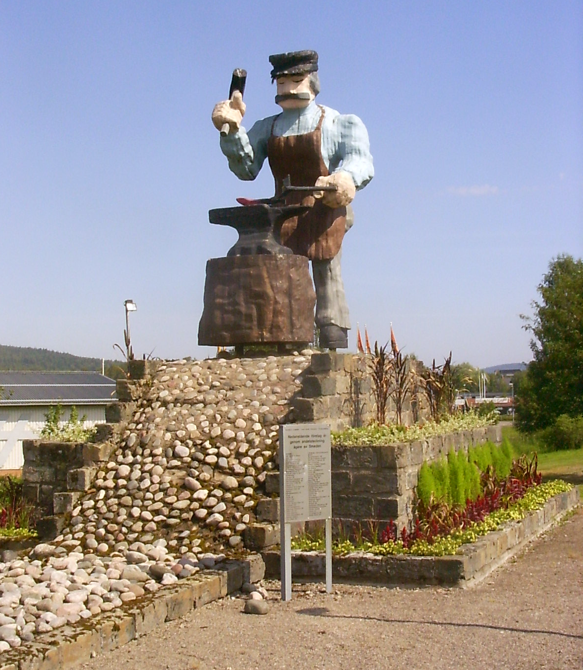 Smedjebacken, sculpture of blacksmith by Sven-Göran Niklasson.